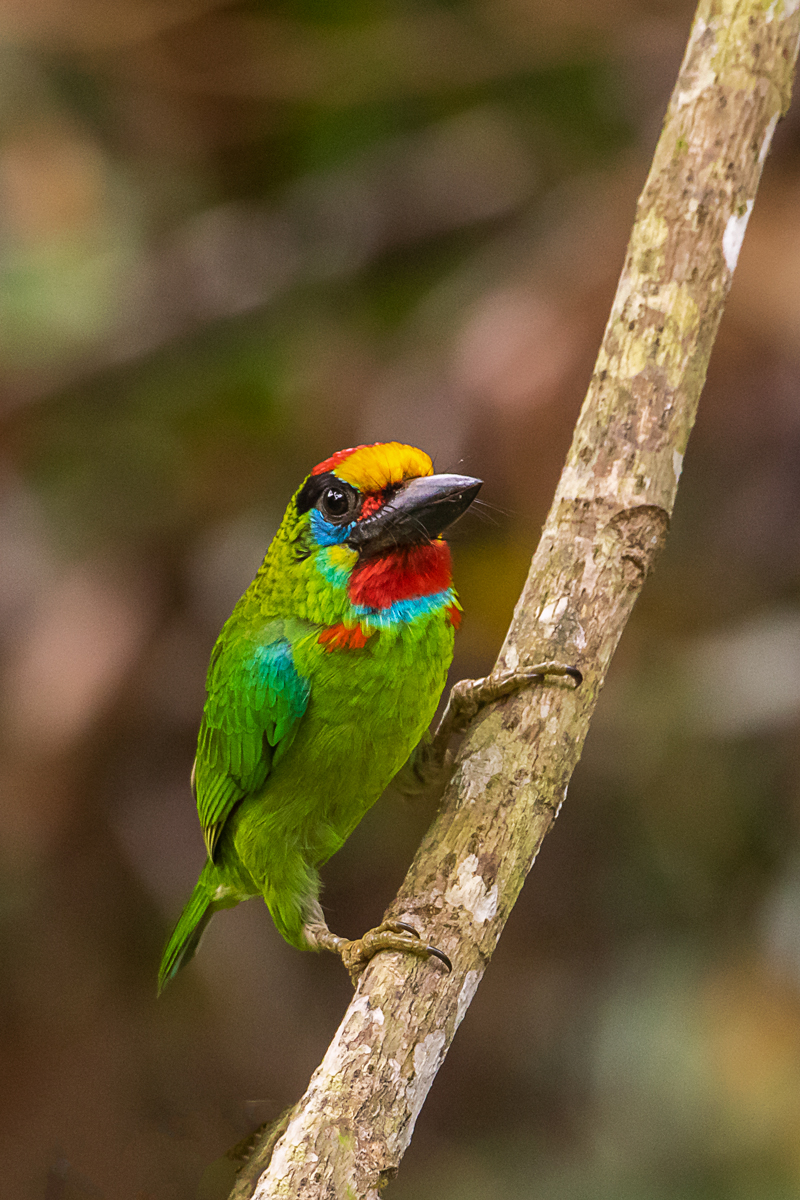 Taken at Taiping in Malaysia